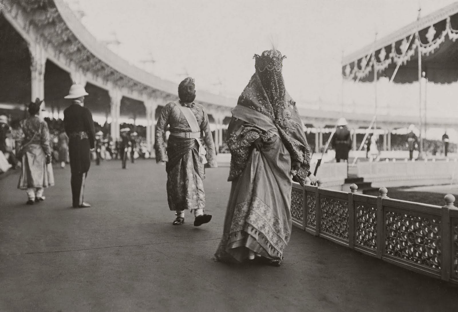 Kaikhusrau Jahan, Begum of Bhopal with her son Nawab Nasr-Ullah Khan of Bhopal at the Delhi Durbar of 1911